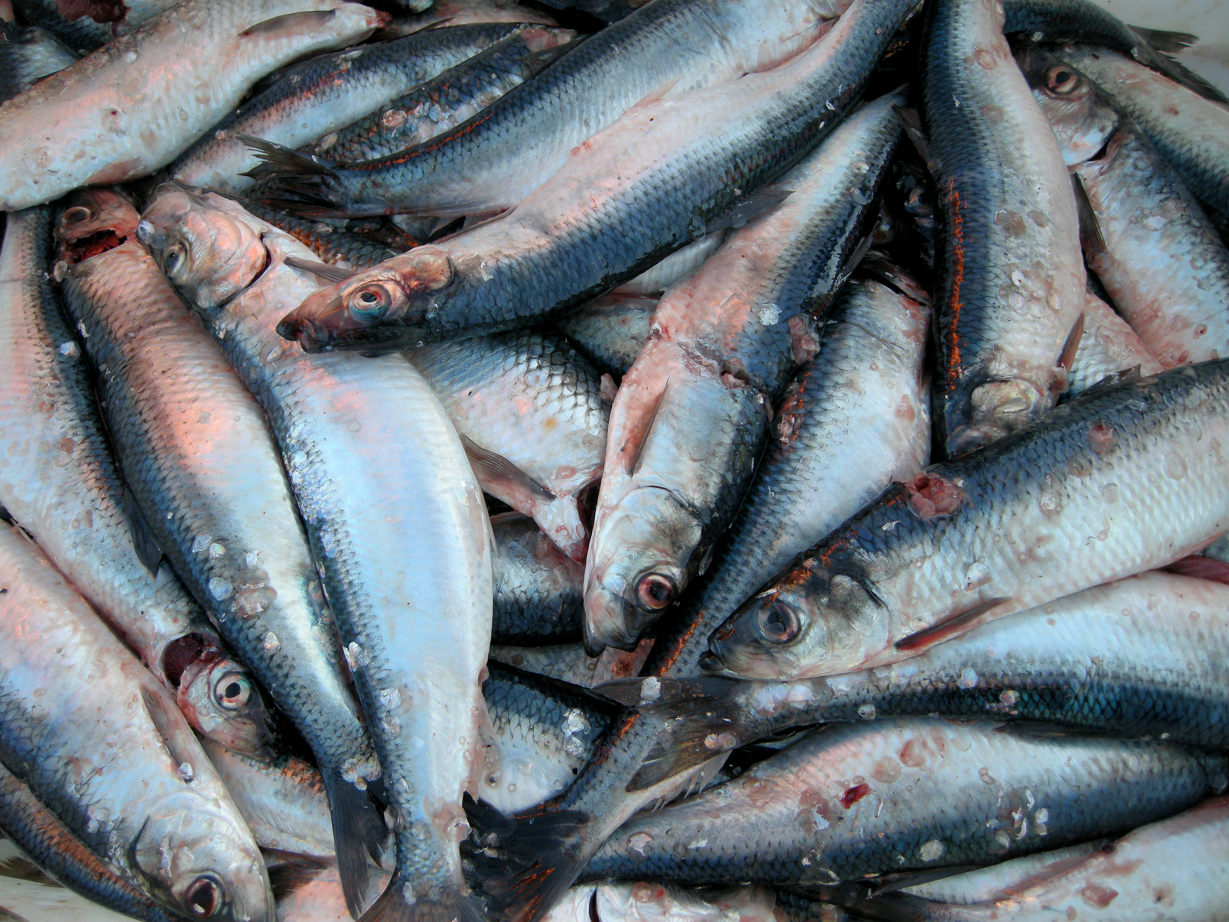 Atlantic herring (Clupea harengus)